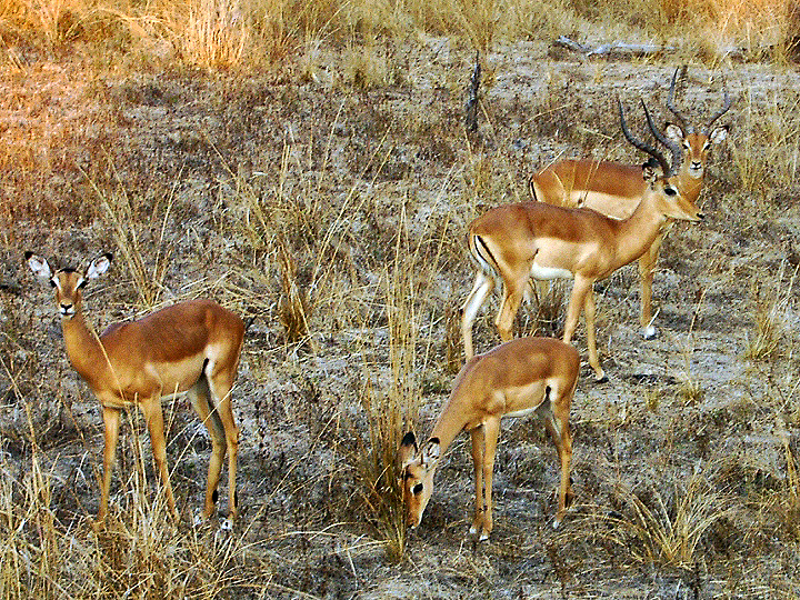 Impala at South Luangwa National Park, Zambia.